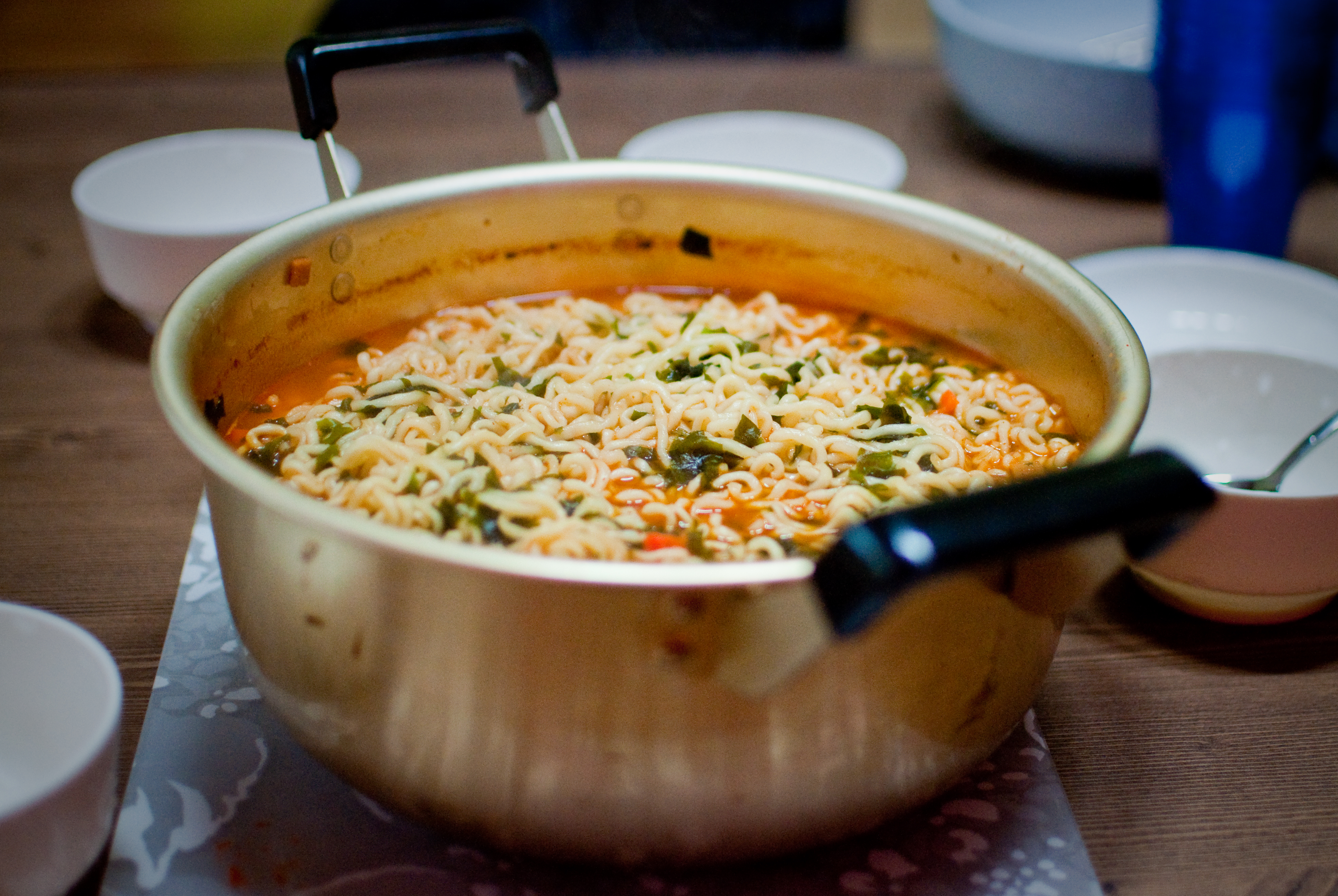 Rameyon (instant noodles)